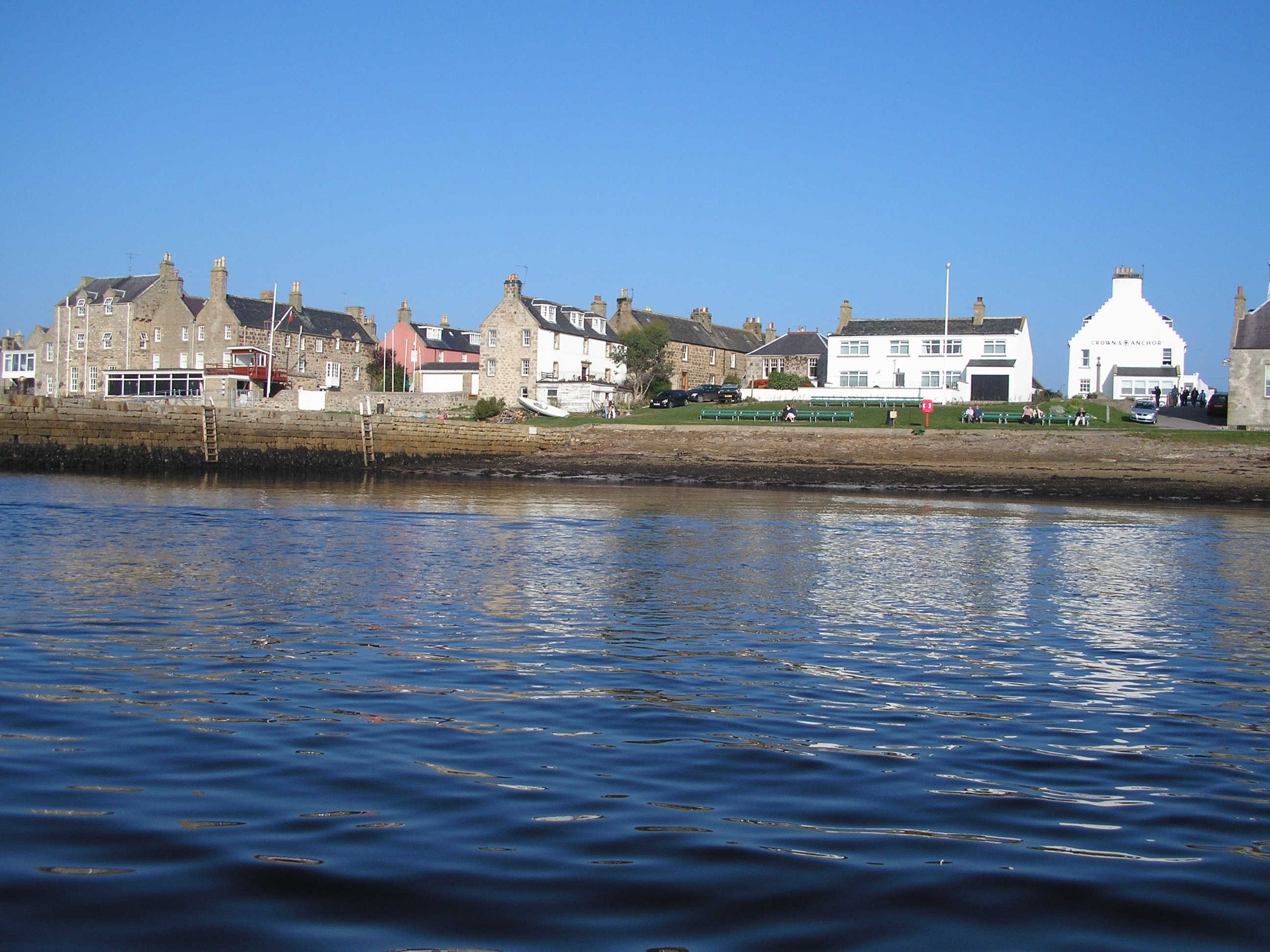 The Loading Bank at Findhorn. The Crown and Anchor Inn is at right, the Royal Findhorn Yacht Club to the left. Gàidhlig: Inbhir Èireann, an Crown and Anchor Inn air an làimh dheas.